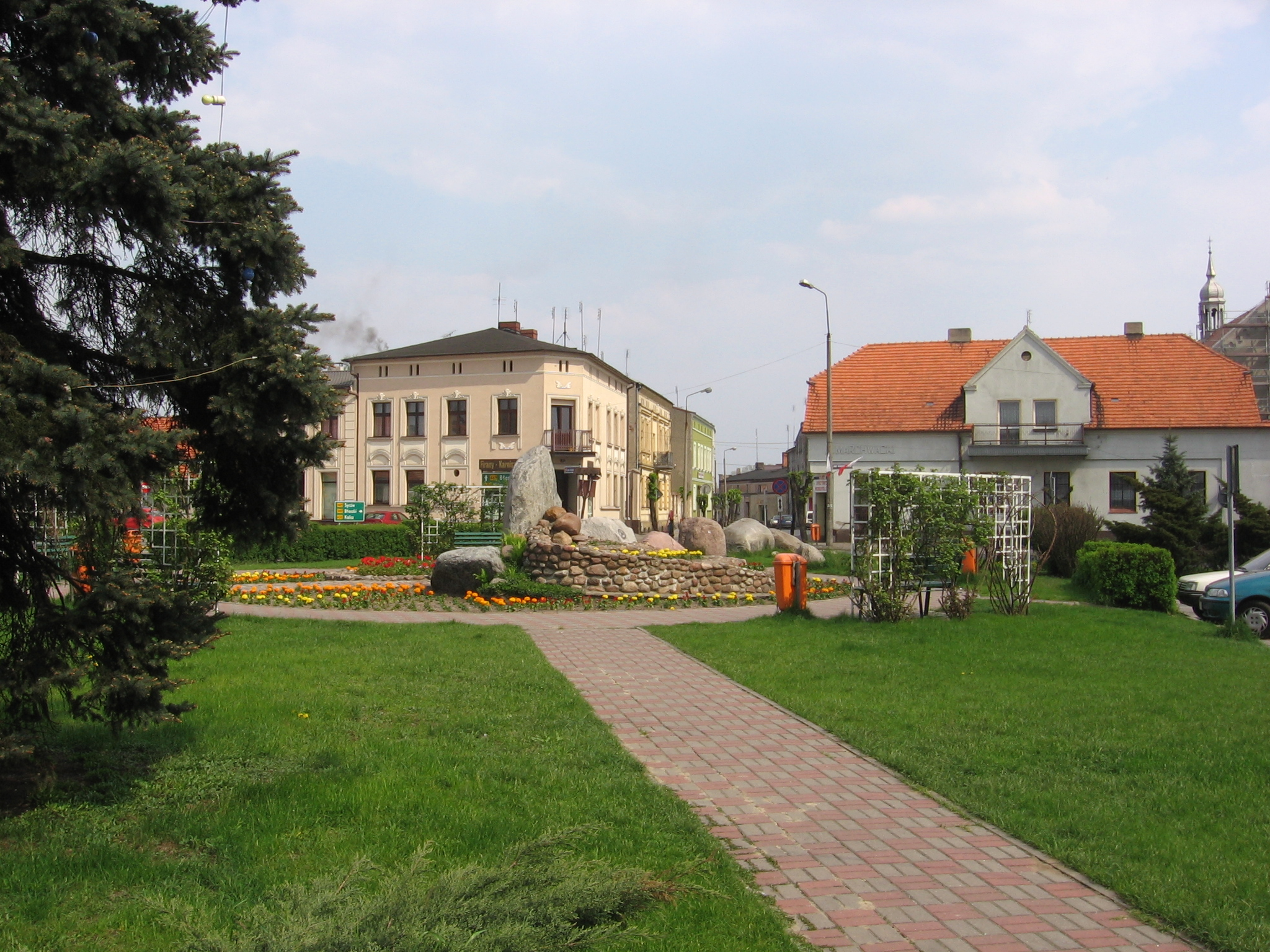 Grabów nad Prosną (Grabów over Prosna River) - small town in central Poland (27 km south from Kalisz)